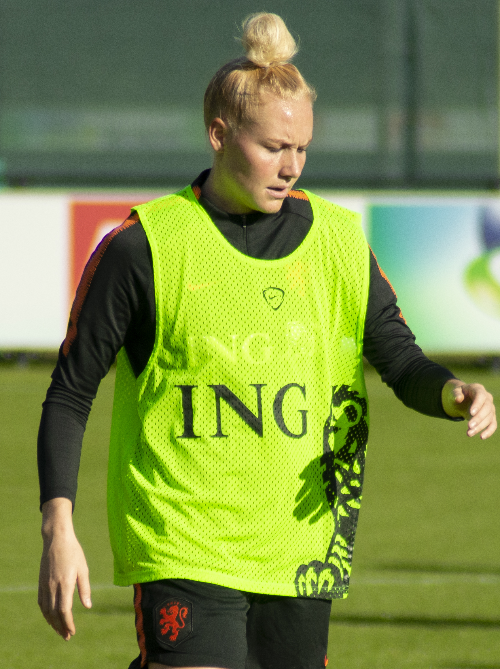 Danique Kerkdijk training with the Netherlands women's national football team on 6 November 2018.